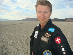 Per Wimmer